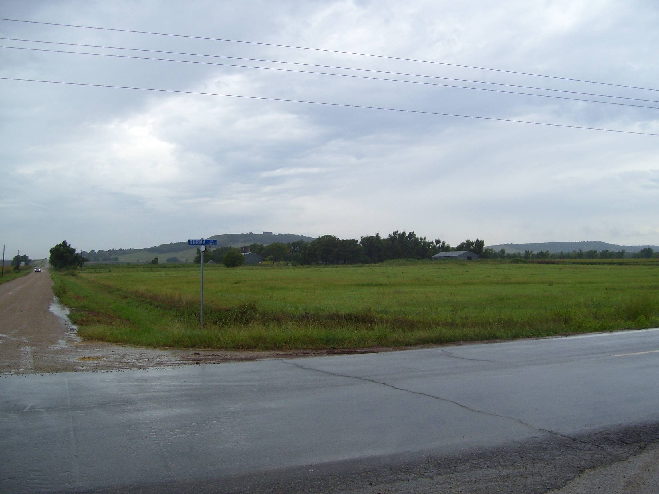 This is my 2008 photo of Coronado Heights in Lindsborg, Kansas.